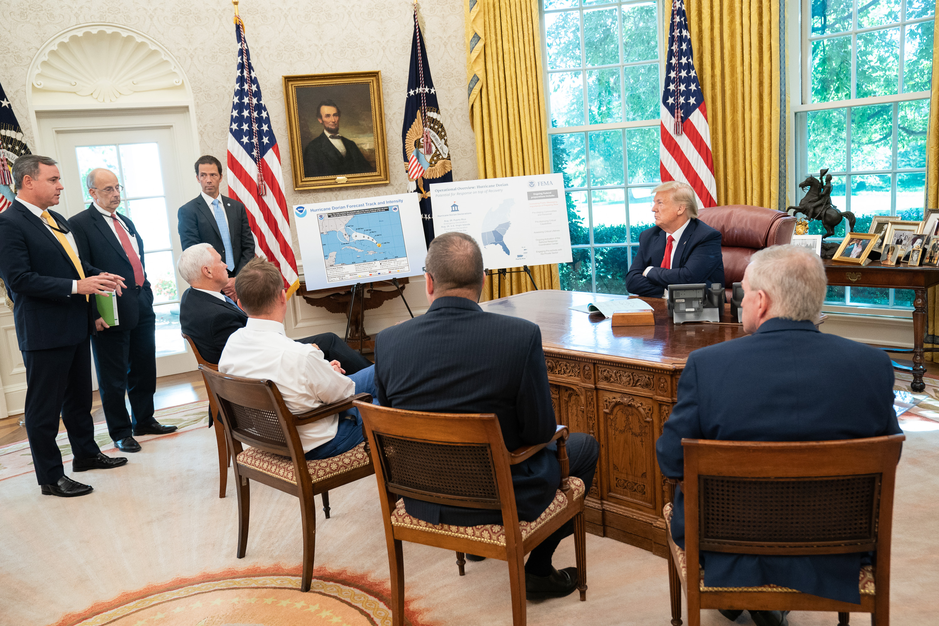 President Donald J. Trump, joined by Vice President Mike Pence, receives a briefing update on Hurricane Dorian as it approaches the U.S. mainland Thursday, Aug. 29, 2019, in the Oval Office of the White House. (Official White House Photo by Shealah Craighead)